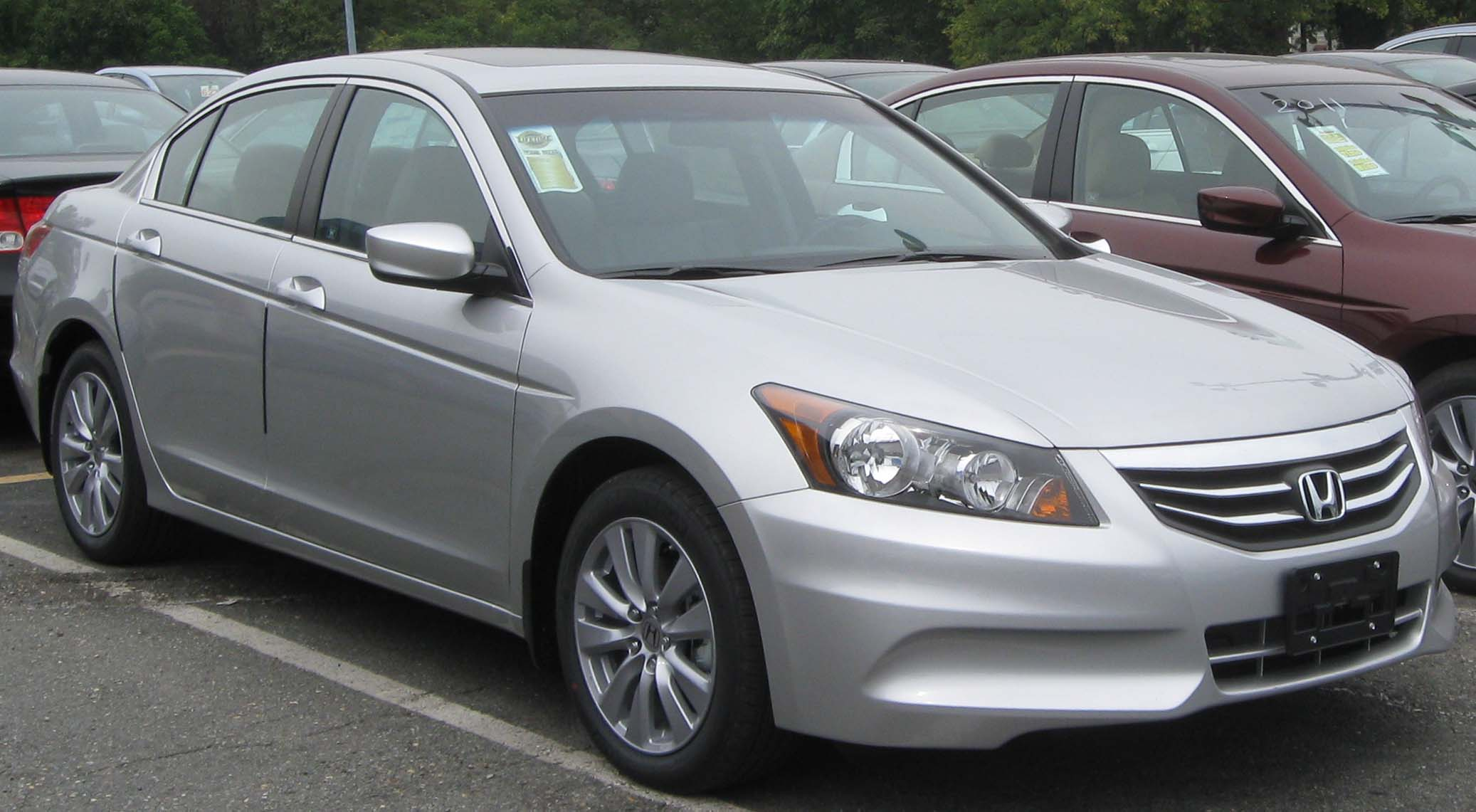 2011 Honda Accord photographed in College Park, Maryland, USA.